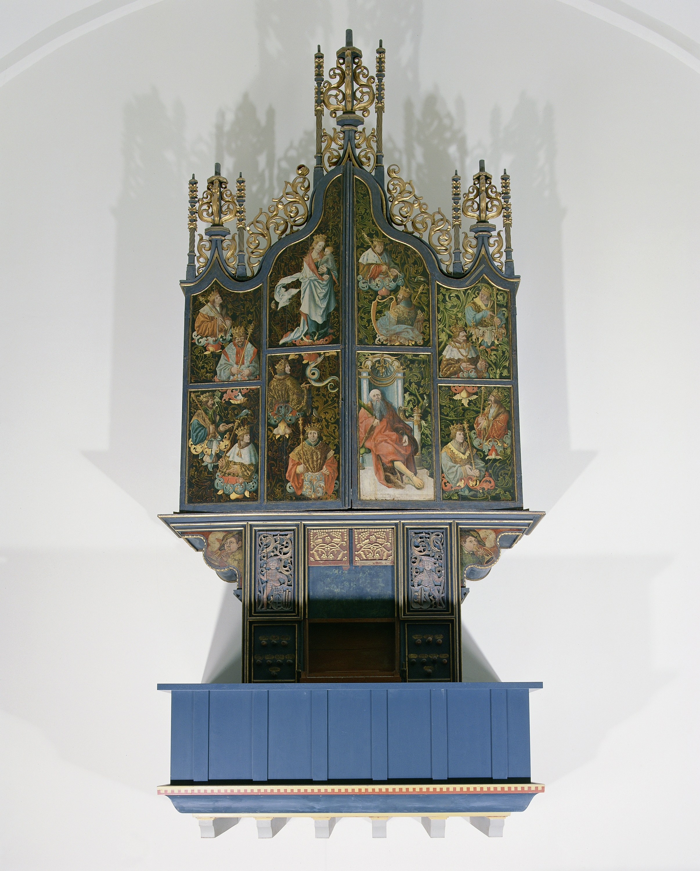 Organ with oak case and painted shutters from the Dutch Reformed Church in Scheemda. The pipes are divided into seven groups. On the inner right shutter are depicted The Nativity and The Adoration of the Shepherds. On the inner left shutter is depicted The Adoration of the Magi. The exterior of the shutters shows The Tree of Jesse. These paintings were formerly attributed as 'manner of Jan Swart van Groningen'.